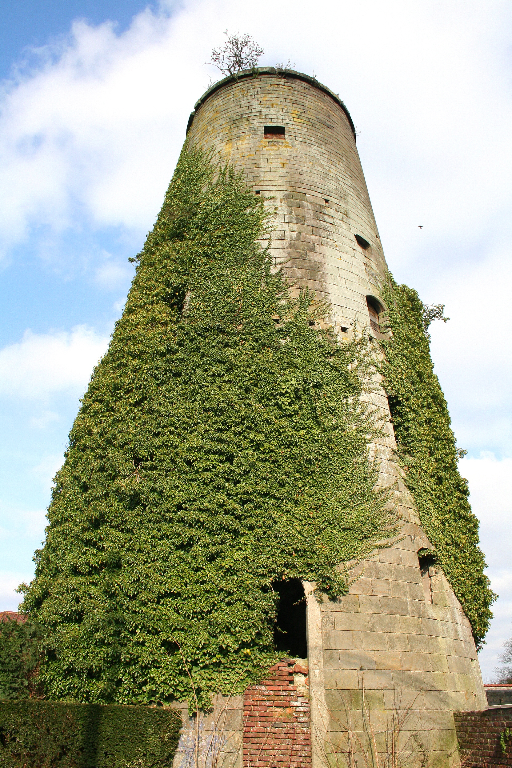 Ville-Pommerœul (Belgium), former windmill.